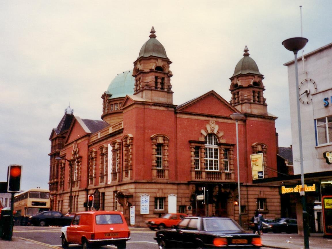 The Darlington Street Methodist Church was built in 1900-1901 by Arthur Marshall in the Baroque Style. It is also described as a free English Early Georgian but with a hemispherical copper dome and two facade turrets. A very uncommon design for the purpose.